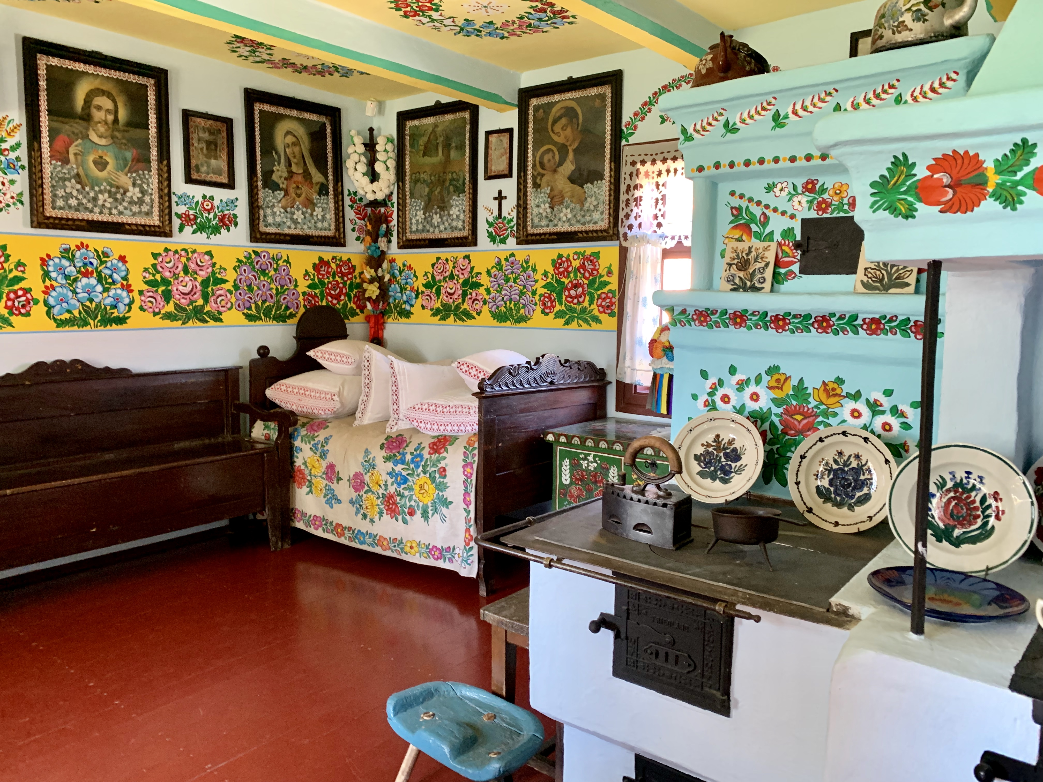 Museum in Zalipie, Lesser Poland Voivodeship, Poland